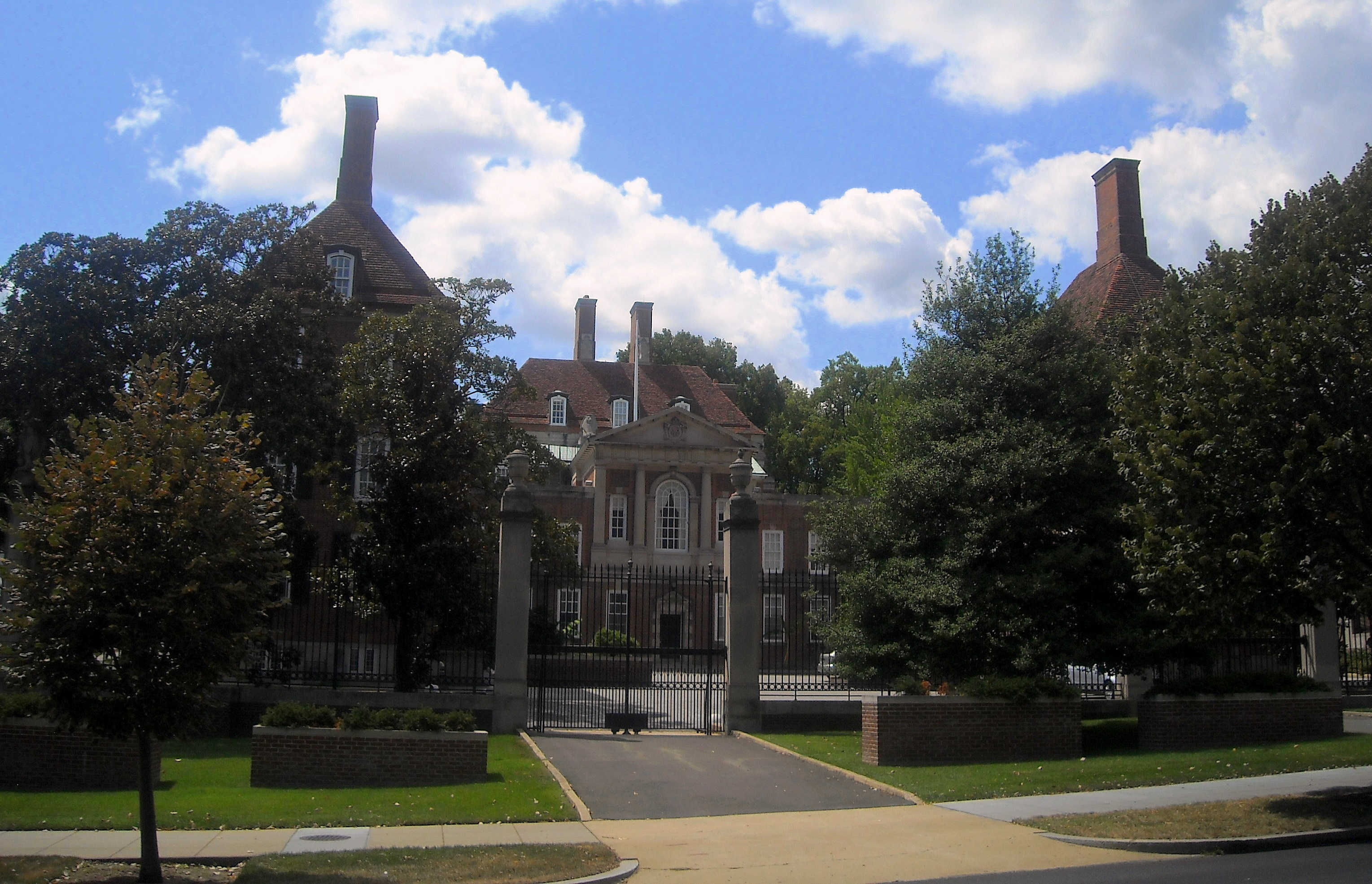 The British ambassador's residence (former chancery) located at 3100 Massachusetts Avenue, NW on Embassy Row in Washington, D.C. It was designed by Sir Edwin Lutyens in 1928 and is an example of Queen Anne architecture. The embassy was the only building Lutyens designed in the United States. F. H. Brooks, an associate of noted developer Harry Wardman, assisted with the design and construction of the embassy. The home is a contributing property to the Massachusetts Avenue Historic District and was added to the National Register of Historic Places on November 26, 1973. Its 2009 property value is $31,308,480.